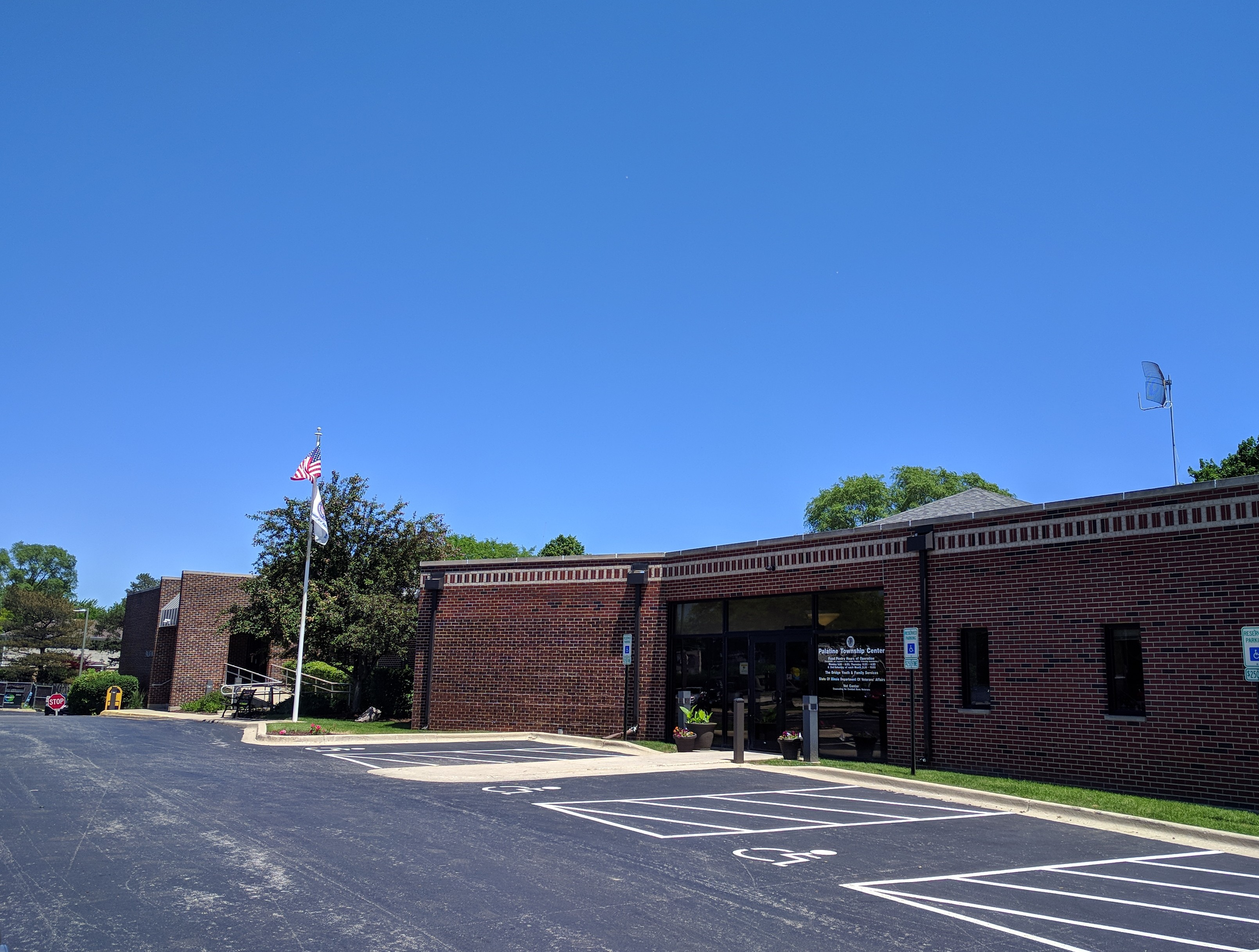 The main governmental building for Palatine Township.